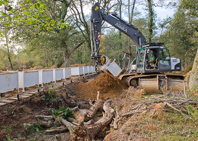 Warwickslade Cutting: running the railway